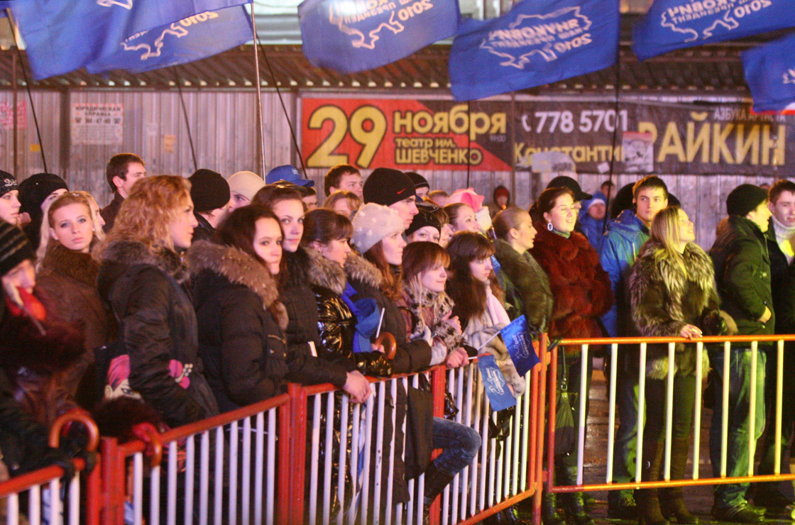 The front row of the crowd at the Yanukovic for President rally in Dnipropetrovsk, Karla Marksa Prospect.